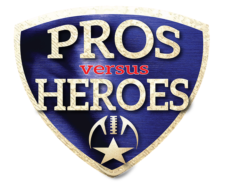 logo pic